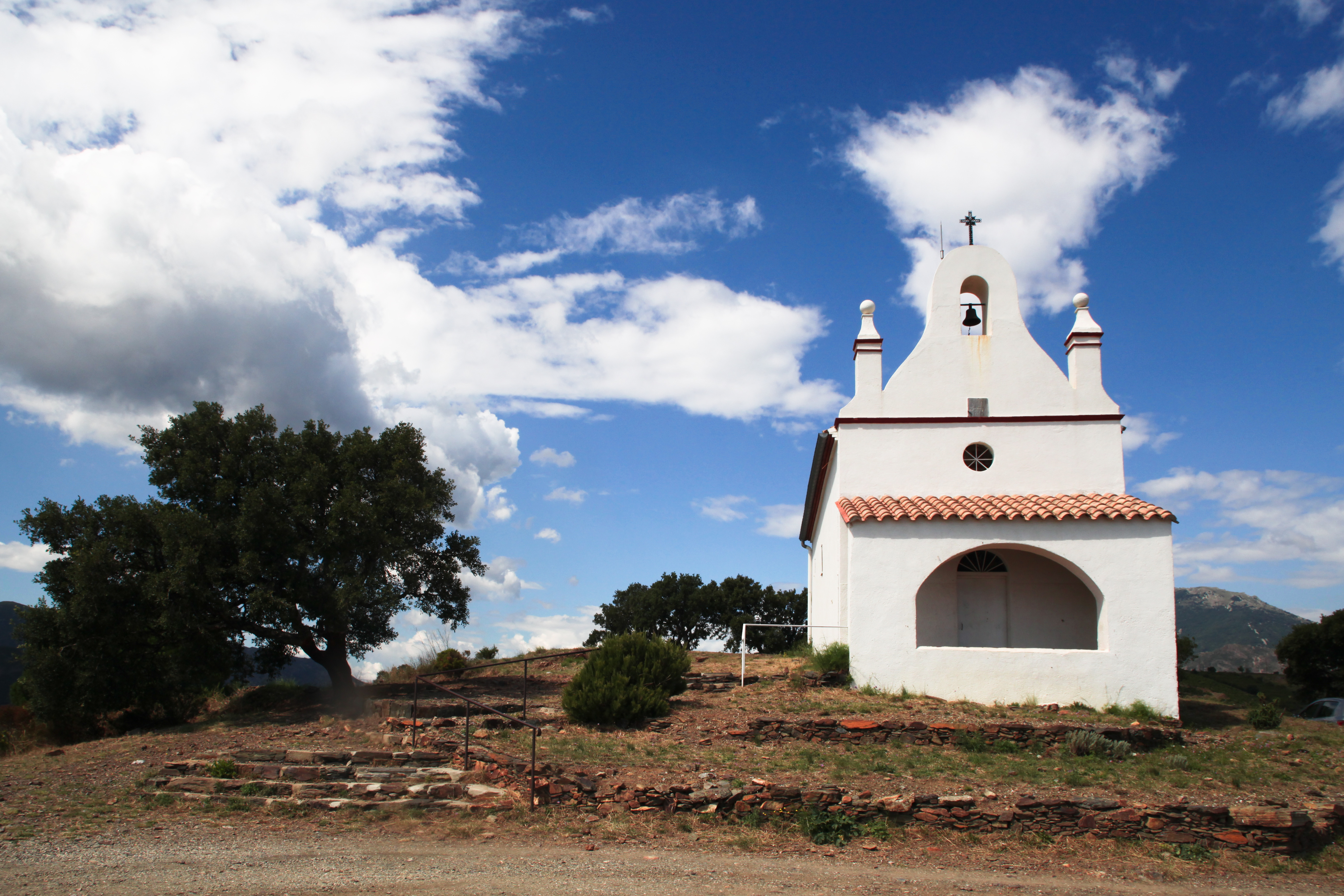 Notre-Dame de la Salette's Chapel, Banyuls-sur-Mer